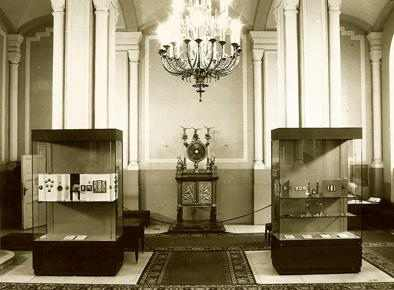 Exhibition at the Kremlin Armoury (works of Alexei Maximov)